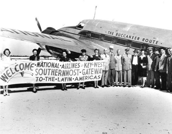 Persistent URL: Local call number: RC12774 Title: First scheduled service between Miami and Key West by National Airlines Date: February 10, 1944 Physical descrip: 1 photoprint - b&w - 8 x 10 in. Series Title: Reference Collection Repository: State Library and Archives of Florida, 500 S. Bronough St., Tallahassee, FL 32399-0250 USA. Contact: 850.245.6700.